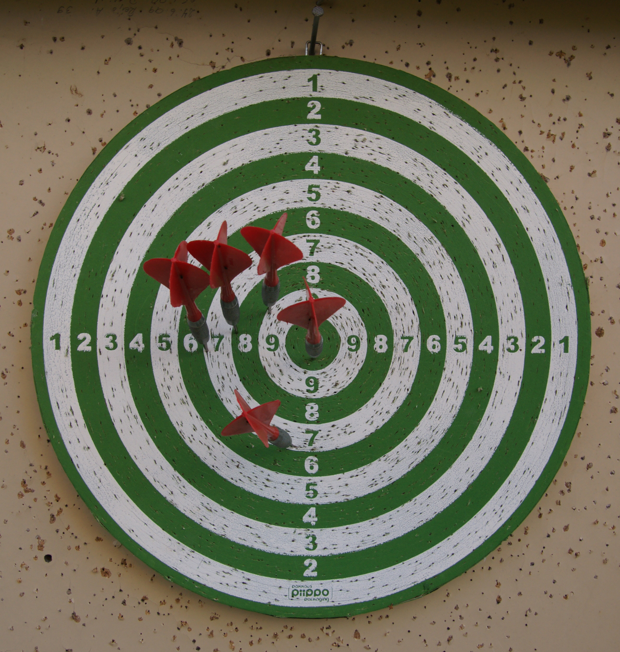 Dartboard with darts.